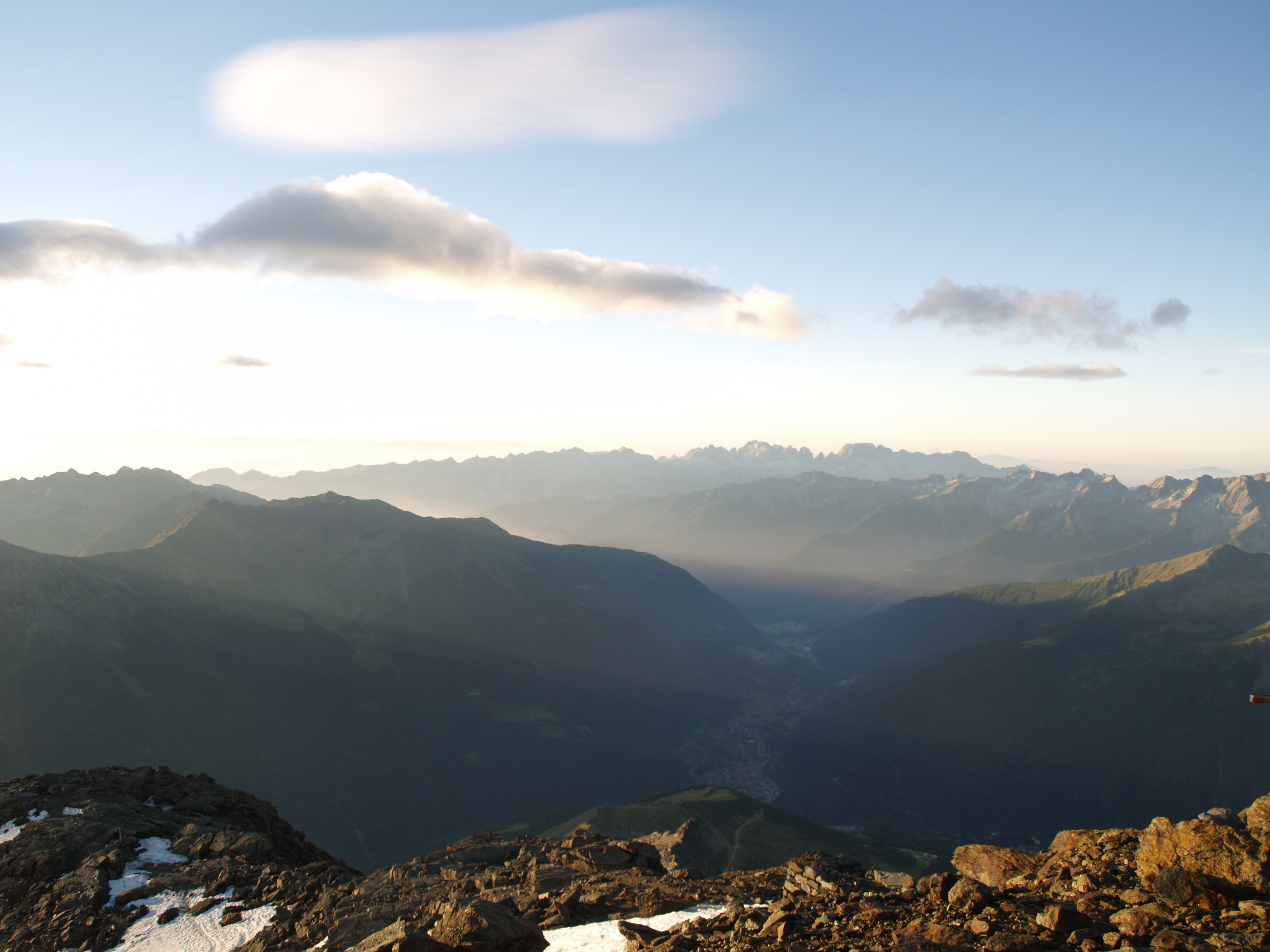 A picture taken in the morning of a Valley in Italy, called Val di Sole. Taken from Refugio Mantova al Vioz, 3535m high. Begin of august, very chilly.